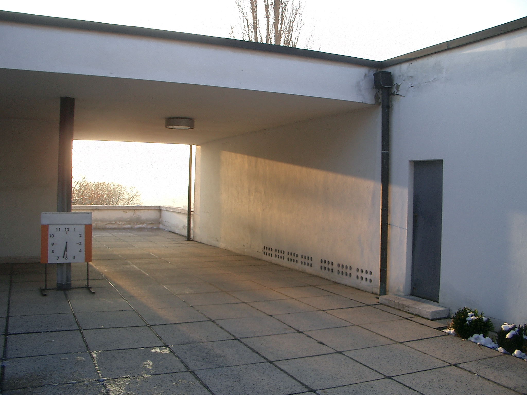 Villa Tugendhat, main entrance. Photo taken on 2nd December 2005 in Brno, Czech Republic Author: Jean-Claude Brunner